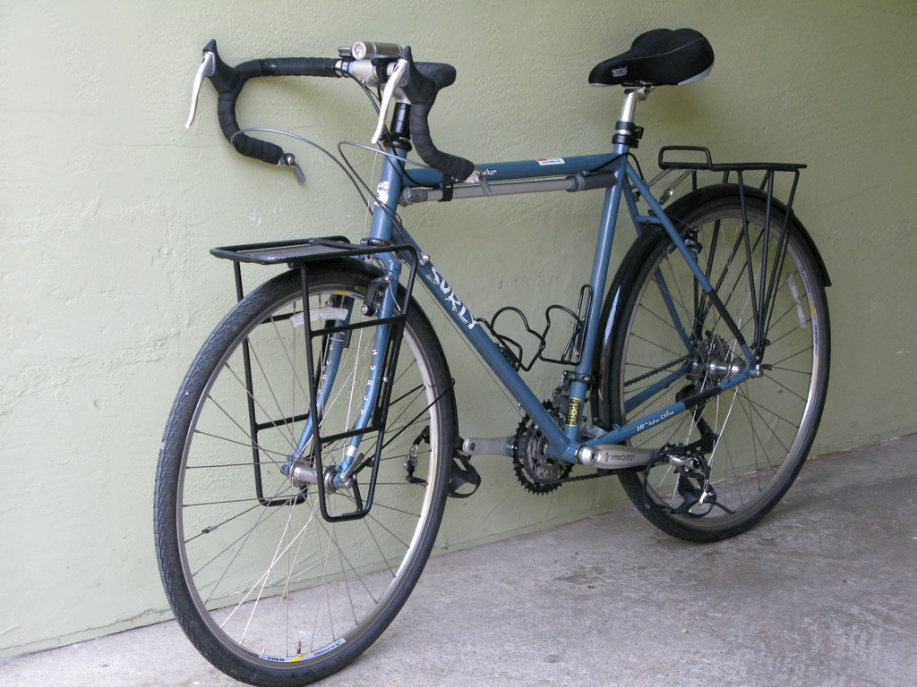 My bike a year and thousand miles later. Added a front rack. Read more here